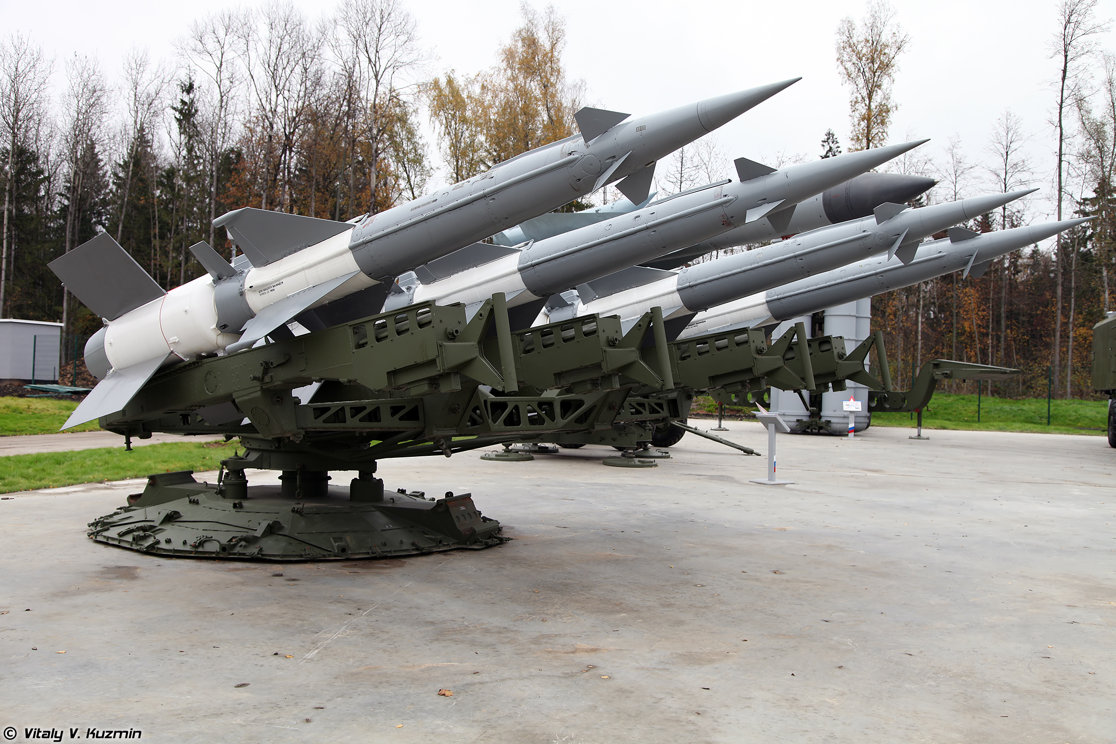 S-125M system with 5V27D SAM - Park Patriot